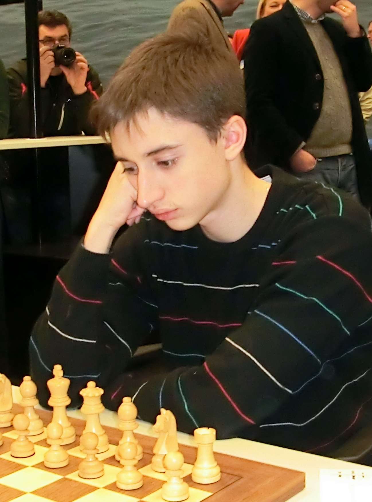 Daniil Dubov, chess grandmaster from Russia